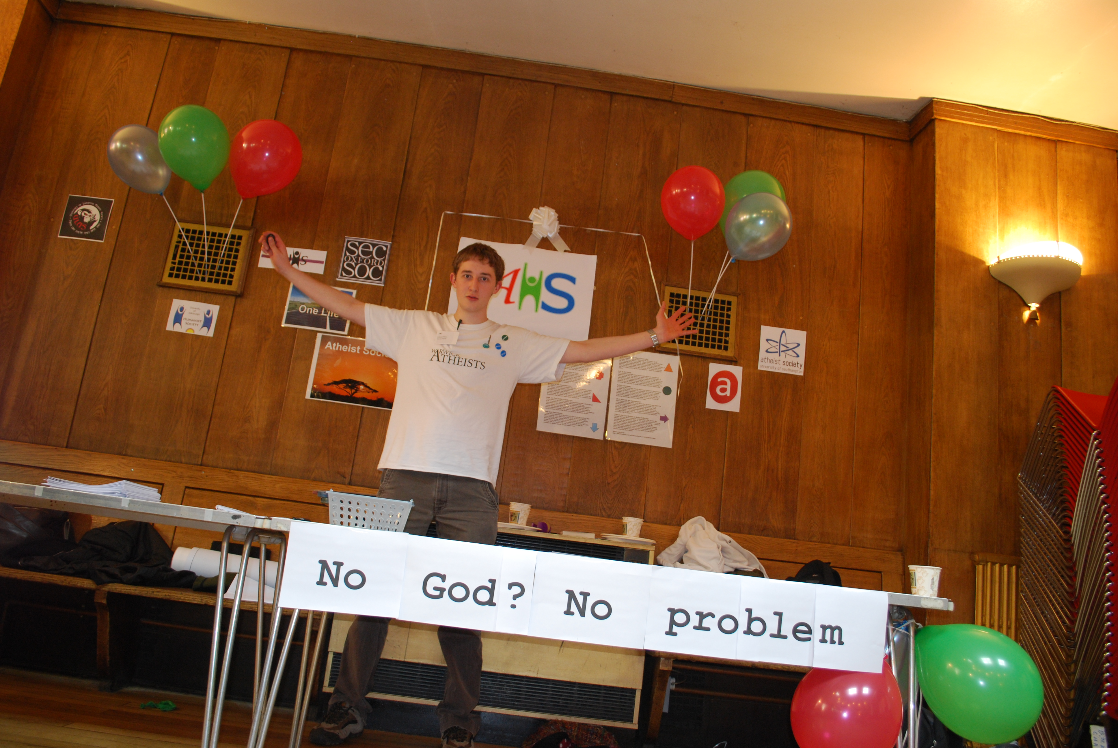 Today was the big day. The AHS launch has finally arrived. I have been looking forward to it for a long time. This event has been in planning since November and a lot of work has gone into it. The AHS is the National Federation of Atheist, Humanist and Secular student societies. It is an umbrella organisation for all the godless societies like the Warwick Atheists around the UK. It will provide advice, support and resources and act as a central structure where we can all meet up and of course have a good time. We aim to spread reason and rational thinking on campus' , you would think this is not needed, but in recent years rational thinking has come under attack from the increasingly influential religions on campus. I won't go on but for more info It was a fantastic and very successful day with people coming to London from all over th country. Norman Ralph the president made a fantastic speech and he was then followed by talks by Polly Toynbee, A. C. Grayling and Richard Dawkins. We were also in the national papers today. It's all very exiting and I really hope that the AHS carries on as it has started.